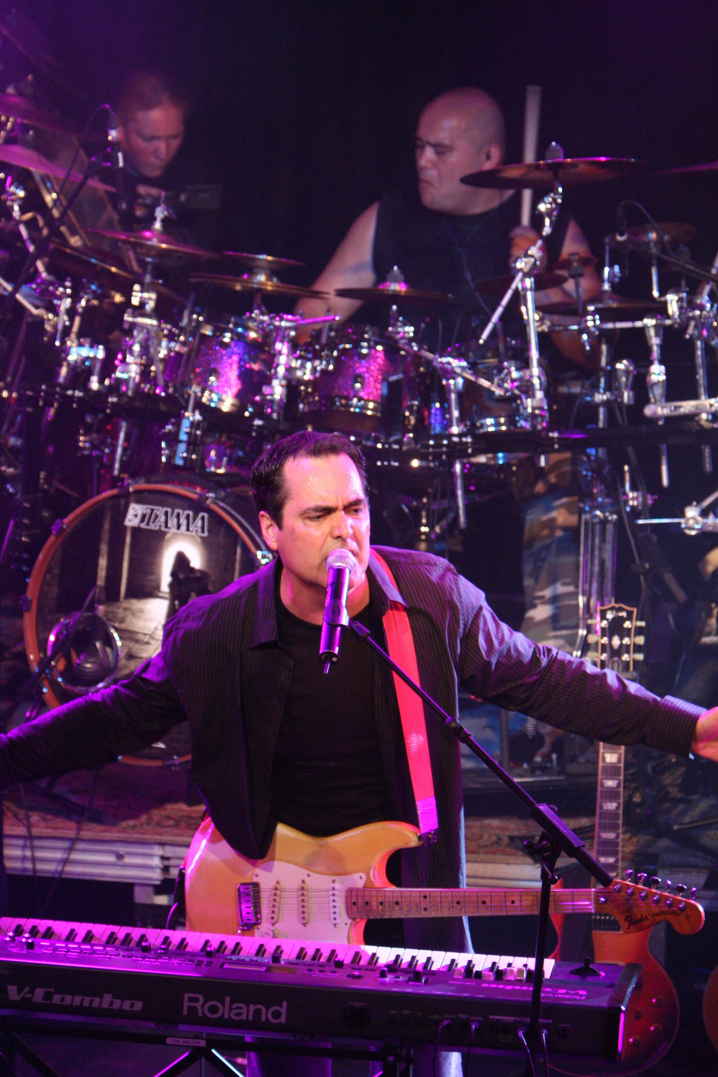 Picture of Collin Leijenaar & Neal Morse during the Sola Scriptura & Beyond DVD shoot.